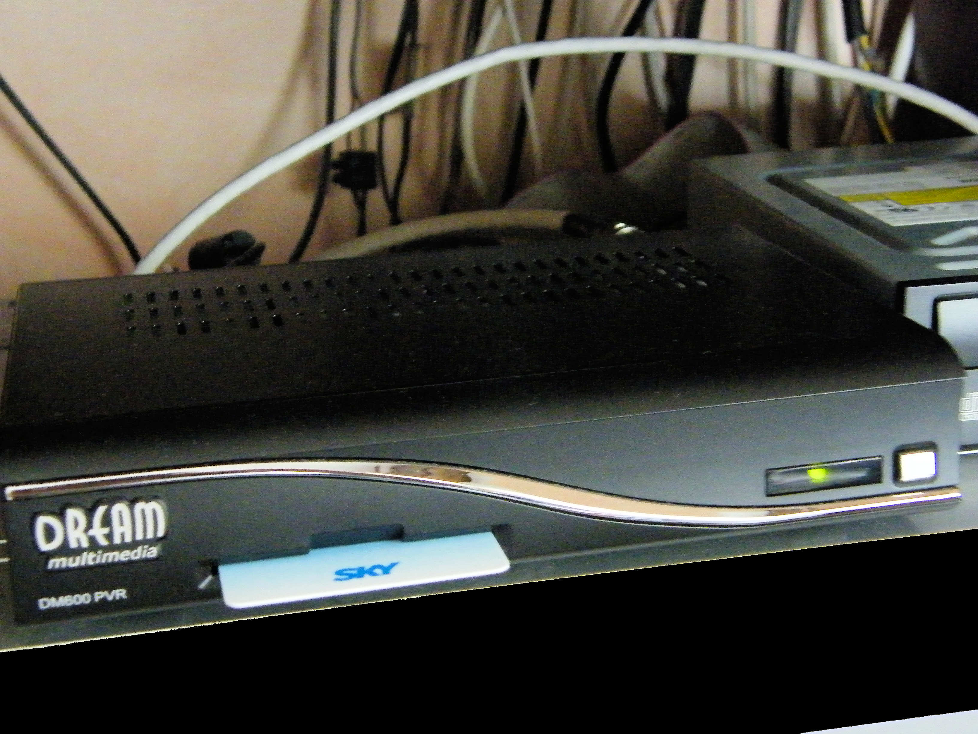 A Satellite Decoder Dreambox DM600 PVR with 120GB hard drive and Sky smart card inserted